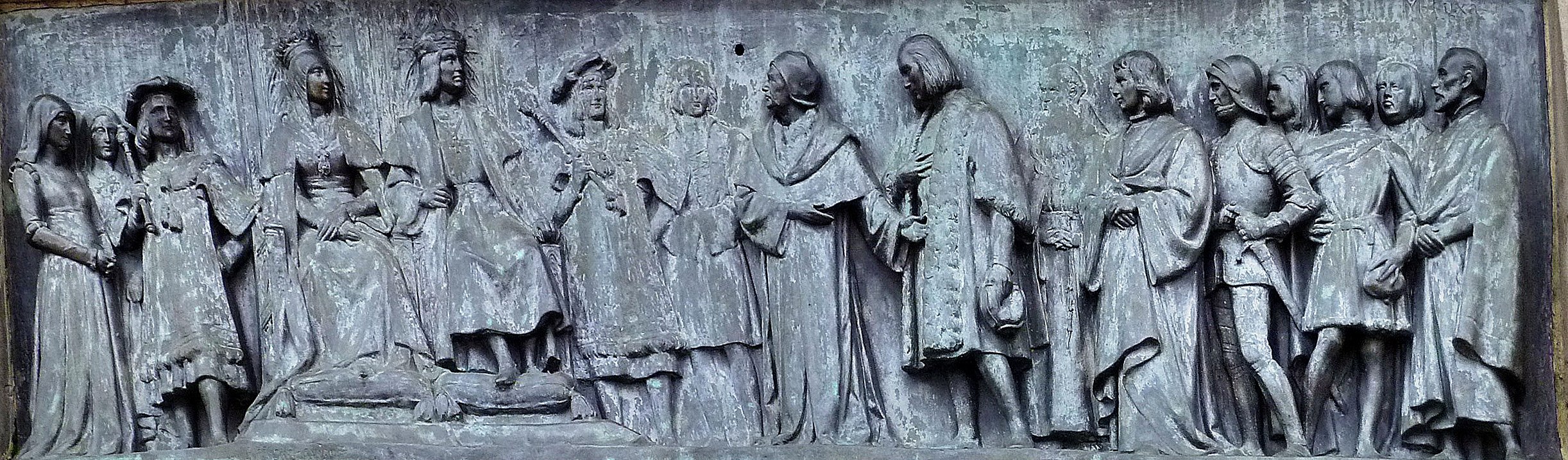 Columbus Monument : bronze bas-relief : Columbus meeting King Ferdinand and Queen Isabella in Córdoba; Barcelona, Catalonia, Spain